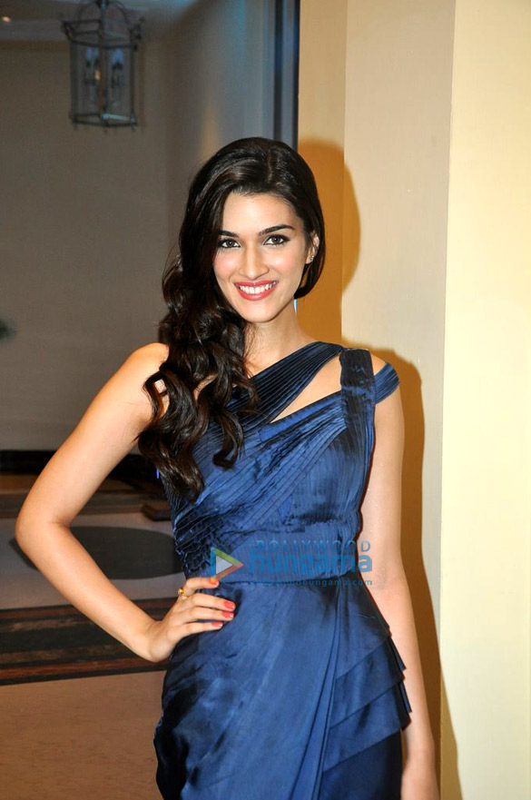 Kriti Sanon at Sonaakshi Raaj's show